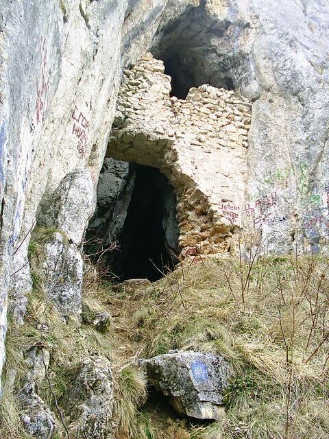 Novakova pećina cave near Pale, Republika srpska, Bosnia and Herzegovina